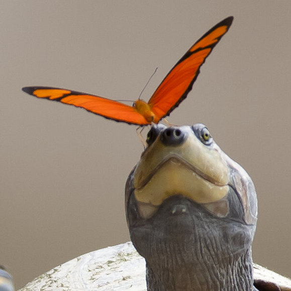 Julia Butterfly (Dryas iulia) drinking the tears of a turtle (Podocnemis expansa?) in Ecuador. The turtle placidly permits the butterflies to sip from their eyes as they bask on a log. This "tear-feeding" is a phenomenon known as lachryphagy.